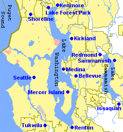 Map of Lakes Washington and Sammamish in Washington state created by Benjamin D. Lukoff, based on a map generated via the US Census Tiger server. Created June 28, 2004. ©2004 Benjamin D. Lukoff.